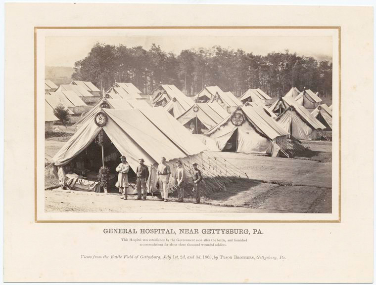 General Hospital, near Gettysburg, Pa. This hospital was established by the Government soon after the battle, and furnished accommodation for about three thousand wounded soldiers.